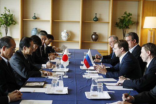 TOYAKO ONSEN, HOKKAIDO, JAPAN. Meeting with Japanese Prime Minister Yasuo Fukuda.